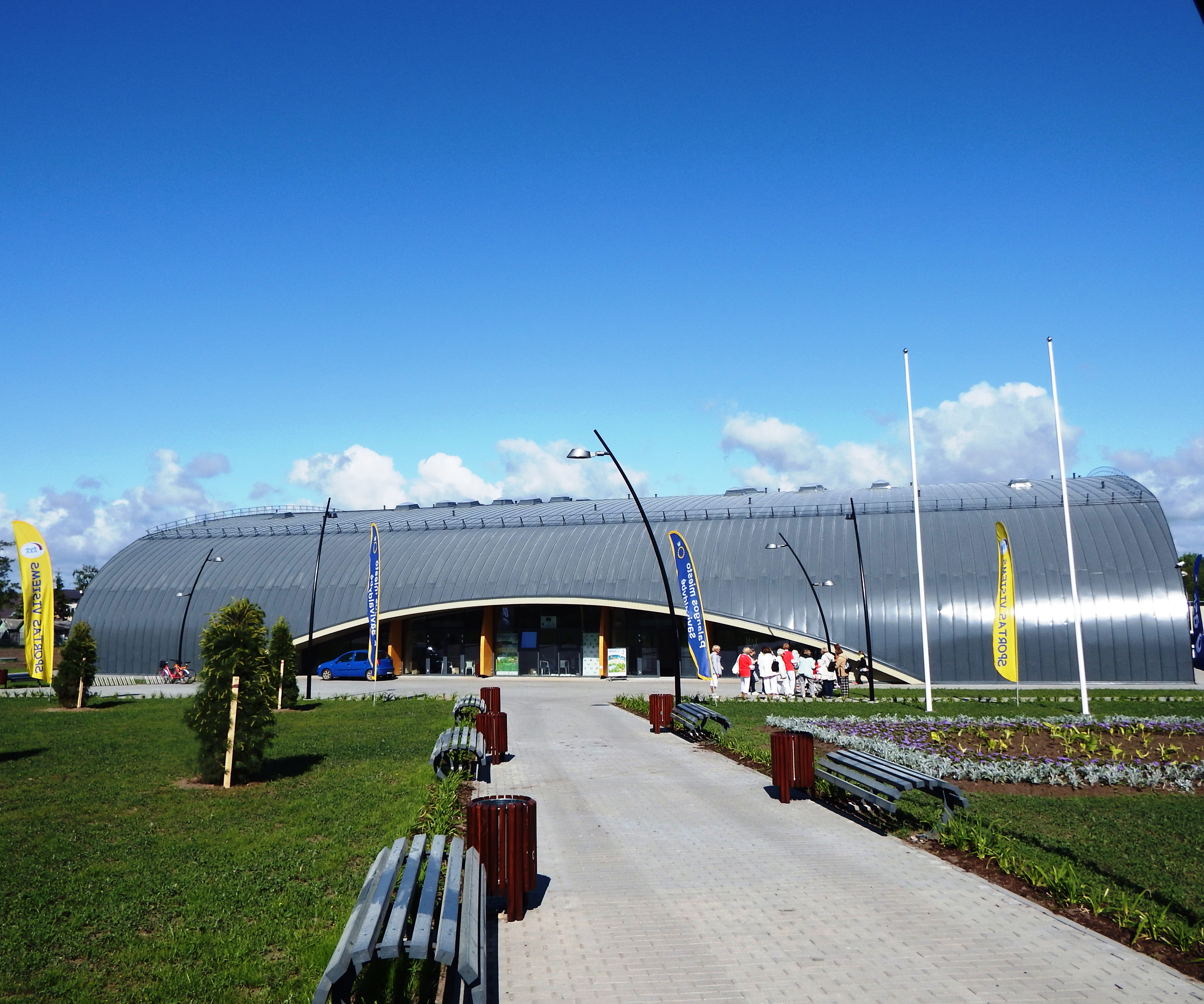 Photo of Palanga Arena, built in 2012.